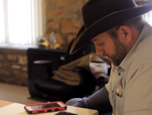 Ammon Bundy speaks with a FBI negotiator via speaker phone at the Mahleur National Wildlife Refuge in January 2016. Screen capture from a video.